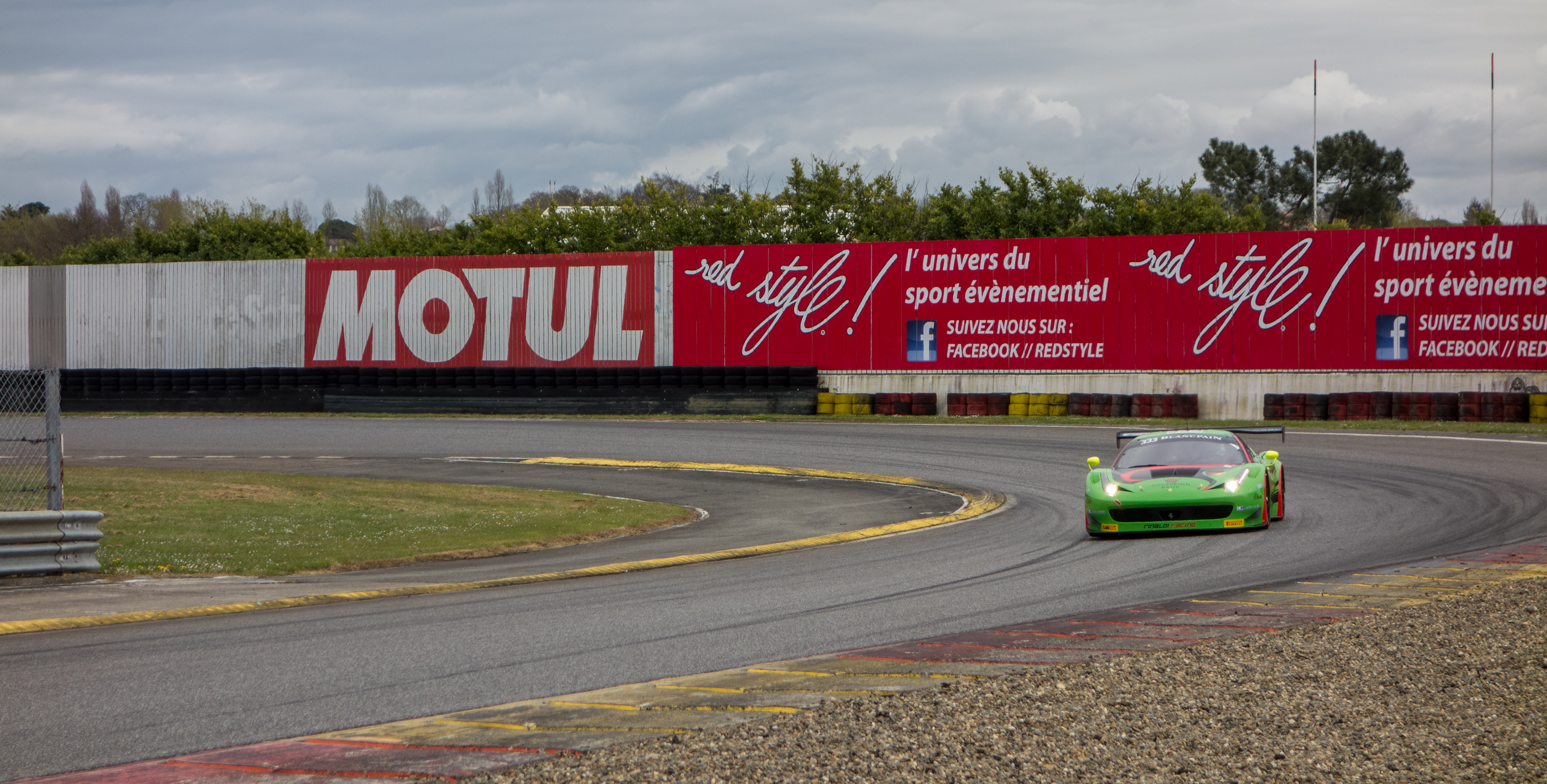 F142 V8 500bhp 550N.m 1250kg Rinaldi Racing #333 Marco Seefried, Norbert Siedler. 5th : Blancpain Sprint Series Nogaro 2015